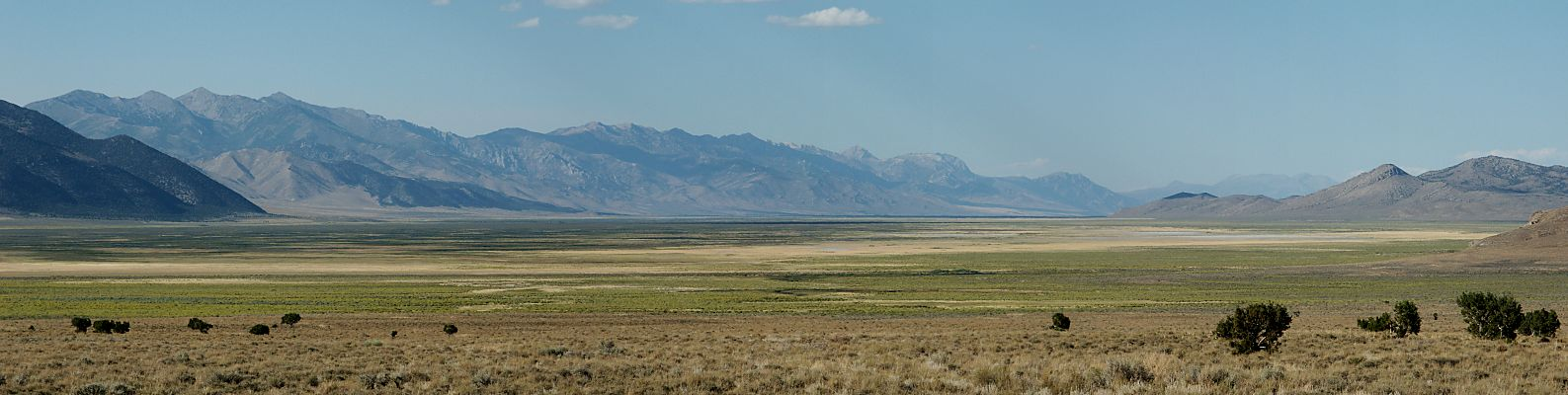 Ruby Valley in northeast Nevada, looking north from a point near Overland Pass. At left are the Ruby Mountains, and in the far distance at the upper right is the East Humboldt Range. The green area at the lower left is the Ruby Lake National Wildlife Refuge.